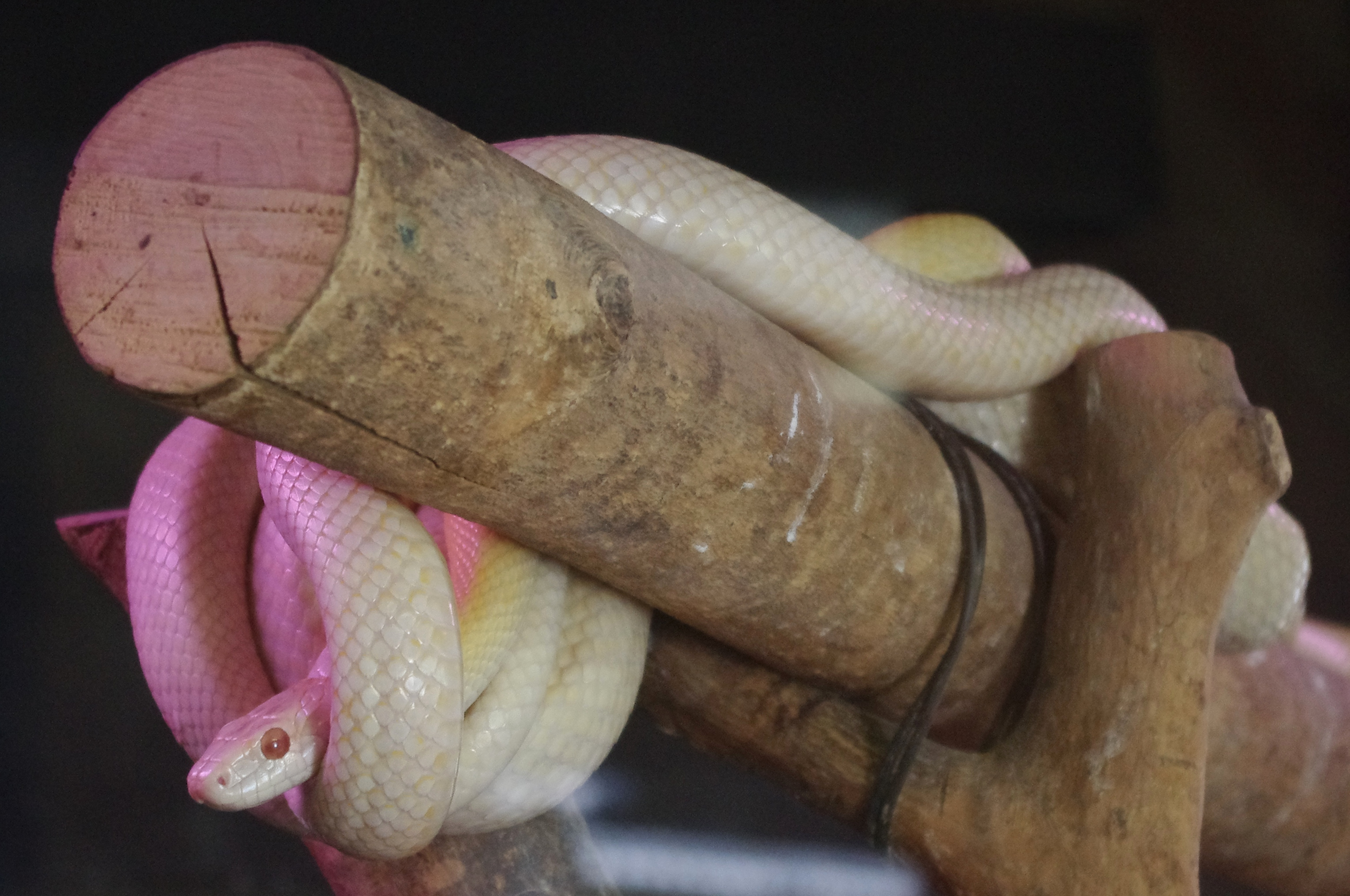 Albino form of Japanese Rat Snake (Elaphe climacophora) from Iwakuni